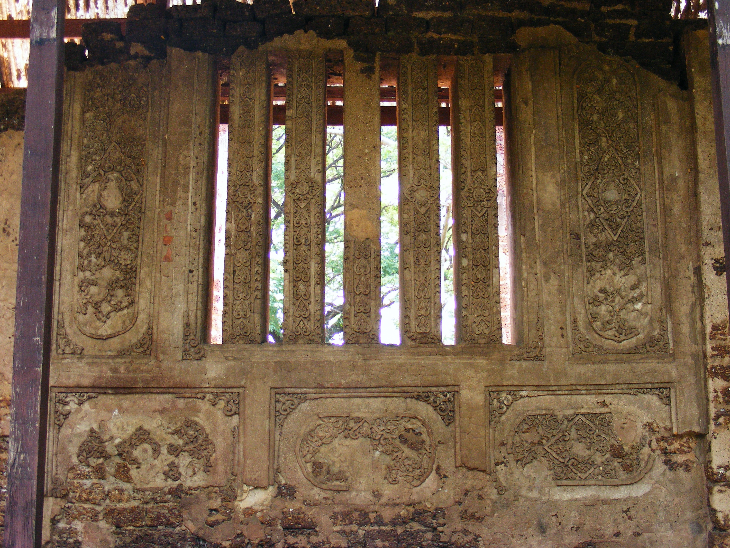 Wat Nang Paya Si Satchanalai historical parkLocation: Si Satchanalai, Sukothai Province, Thailand.